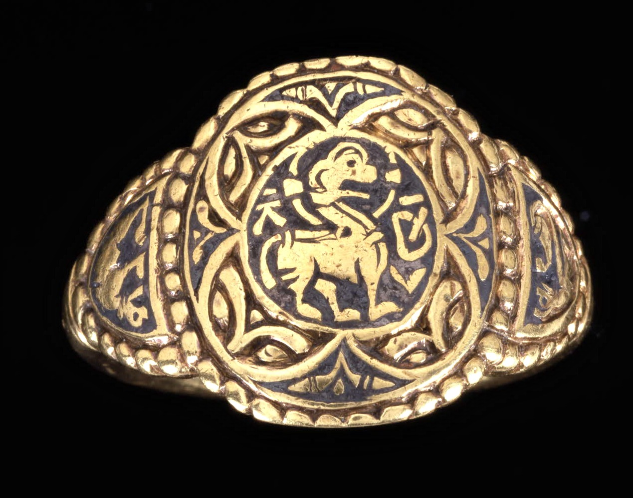 "Gold finger-ring; plain hoop expanding at the shoulders, which with the bezel are chased with Trewhiddle style designs upon a nielloed ground. The bezel is circular with a pearled border; it is ornamented with a medallion inscribed in a quatrefoil and containing the Agnus Dei between two letters; the leaves of the quatrefoil and the spaces between them are chased with foliage. Each shoulder has a semi-circular panel with pearled border, containing an animal on a ground of niello. Inside the ring is engraved with an inscription." From the collections page for the ring, British Museum